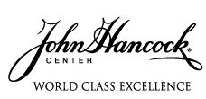 John Hancock Center logo. The building is now known as 875 North Michigan Avenue.